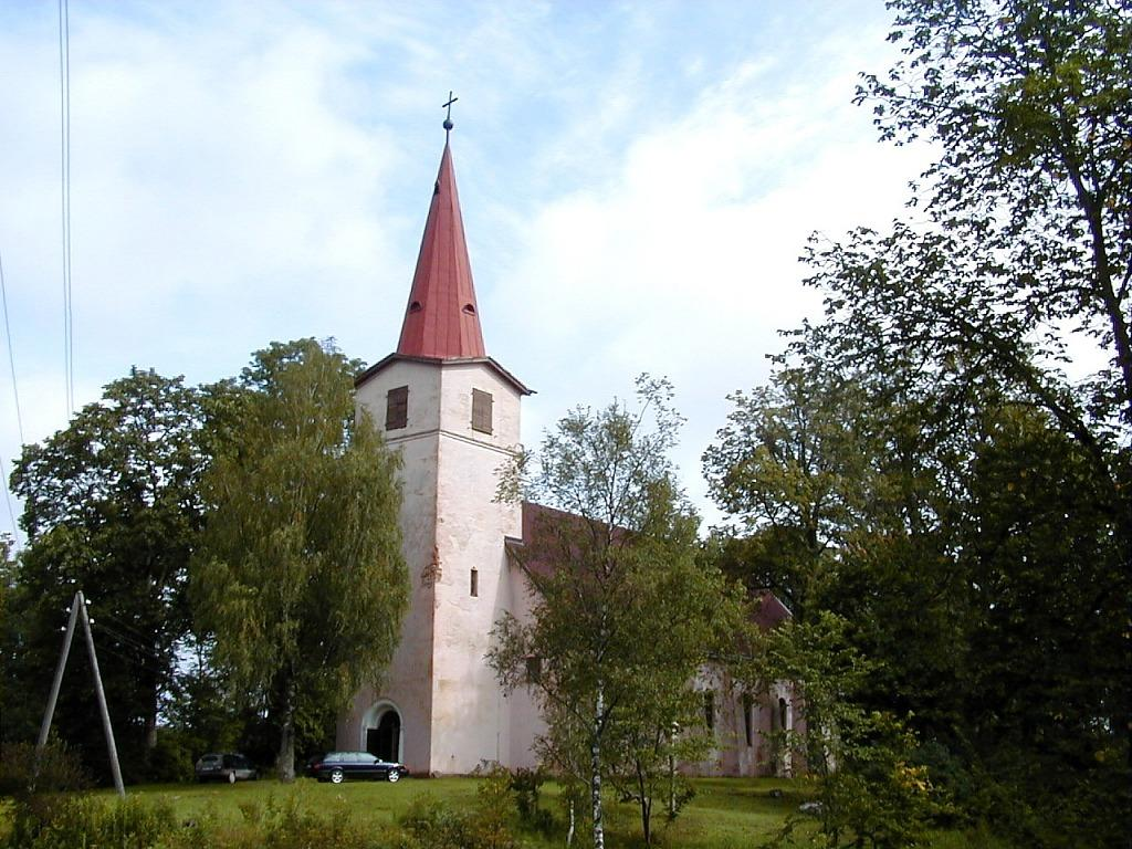 Nītaure Evangelical Lutheran Church